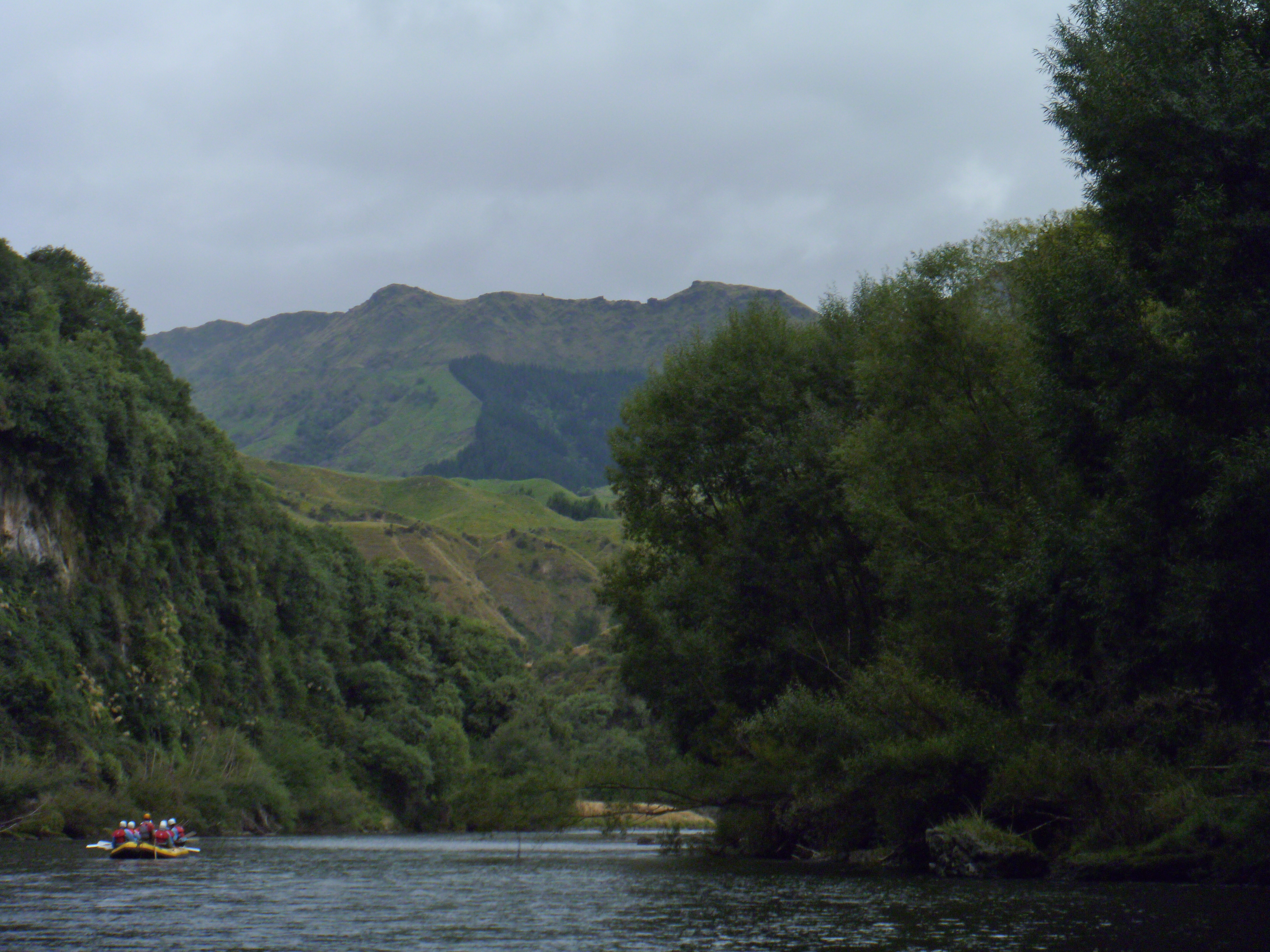 Up stream of Glenfalls campground along Waitara Road.